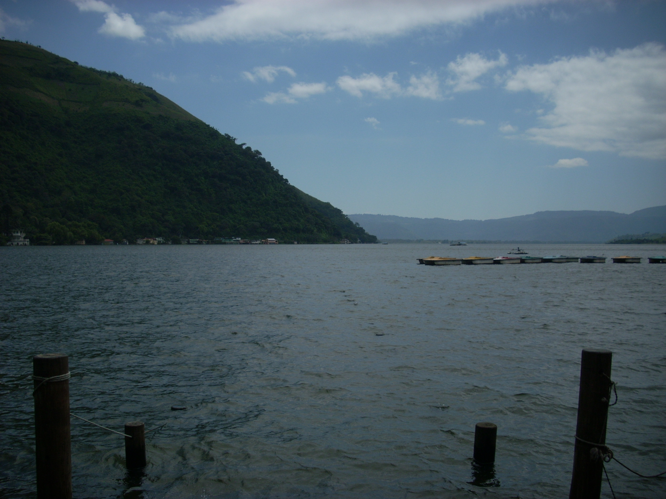 Lago de Amatitlán, in Guatemala department, Guatemala.